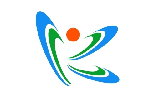 Flag of Kimotuki Kagoshima